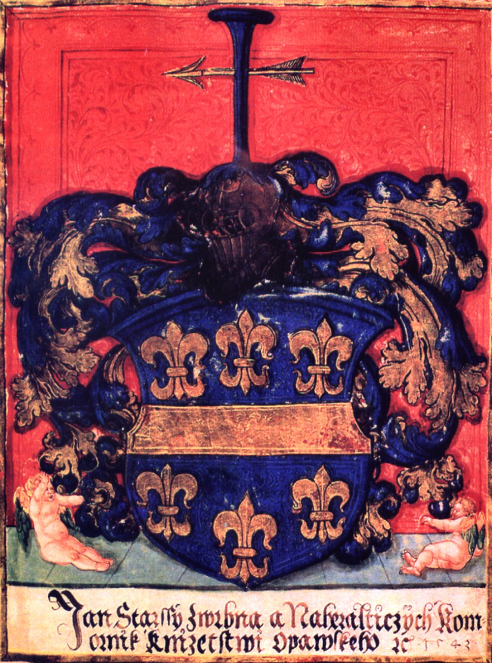 Coat of arms of Jan starší Bruntálský z Vrbna from Zemské desky of Duchy of Opava.